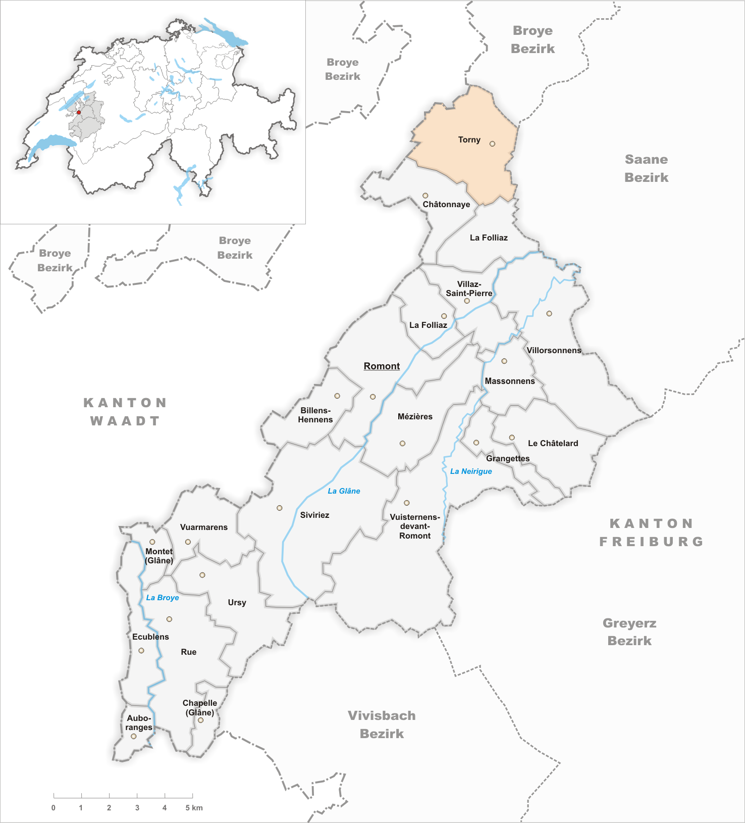 Municipality Torny